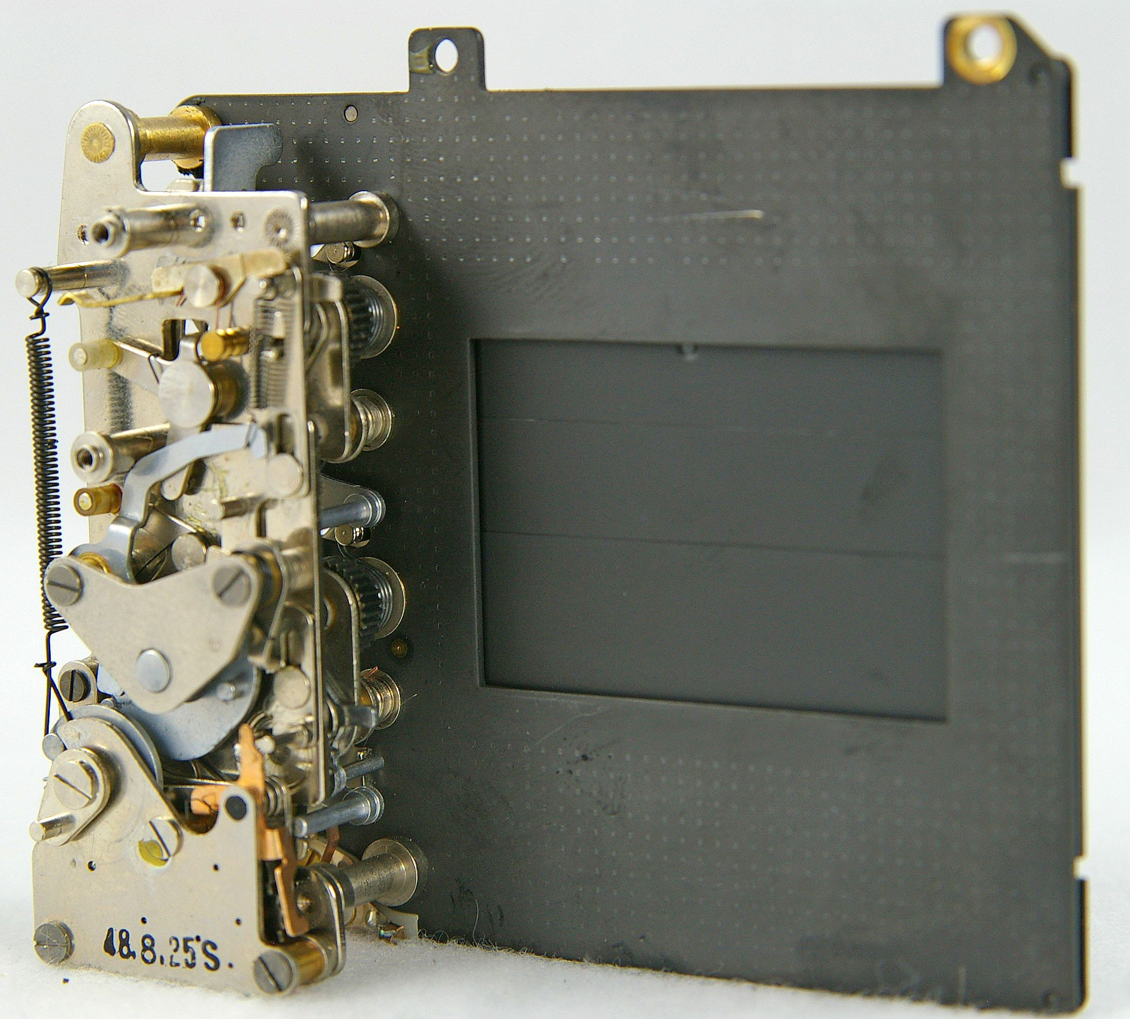 A focal plane shutter from a Yashica TL Electro-X. The first curtain release is the tab on the right edge of the silver plate near the top. The second curtain release is the lever at the top, which is usually near an electromagnet in the camera for electric release. The back side is also on commons File:Focal-plane shutter gears.jpg